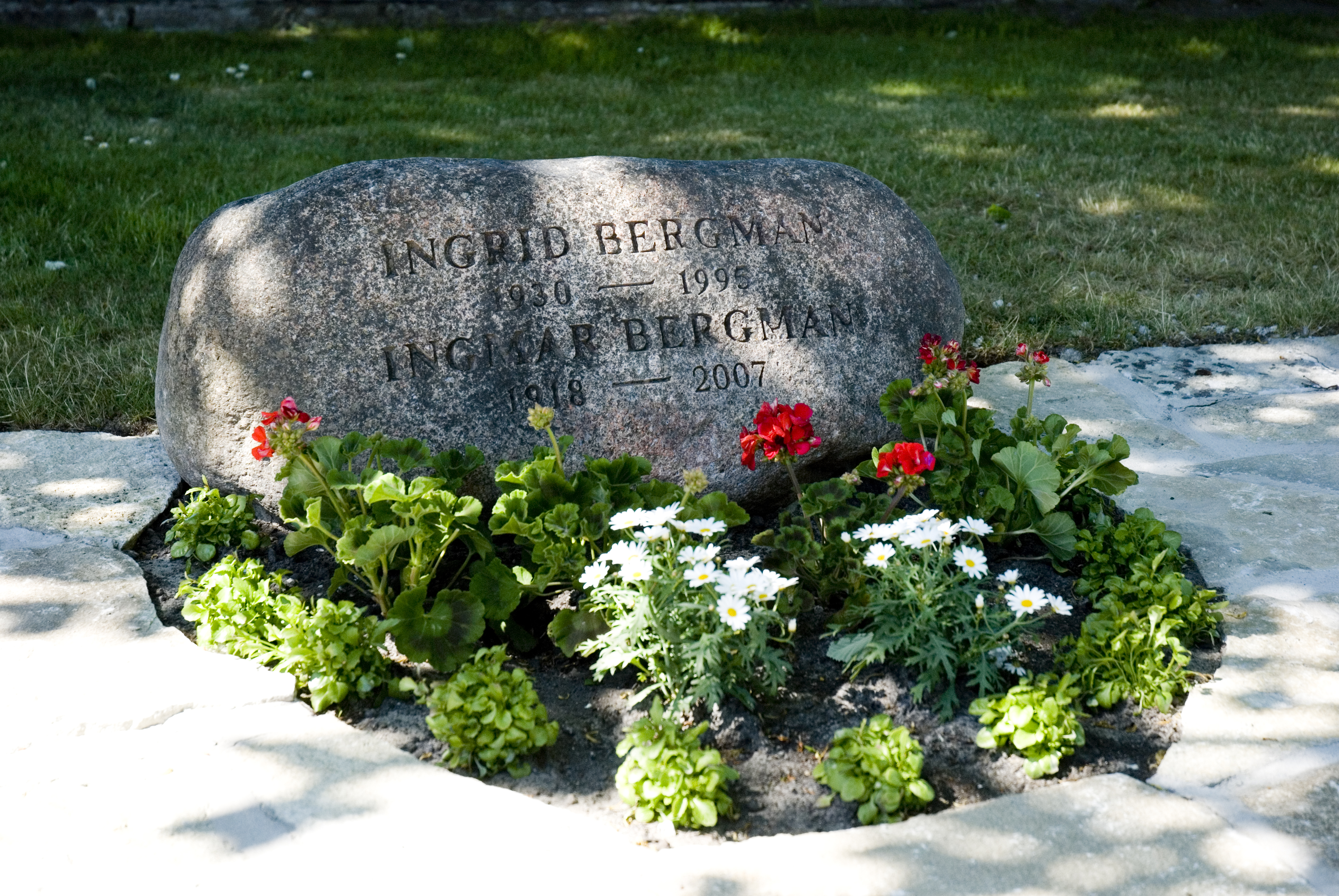 The grave of the Swedish filmmaker Ingmar Bergman and his spouse von Rosen (buried as Ingrid Bergman), on Fårö, Gotland.